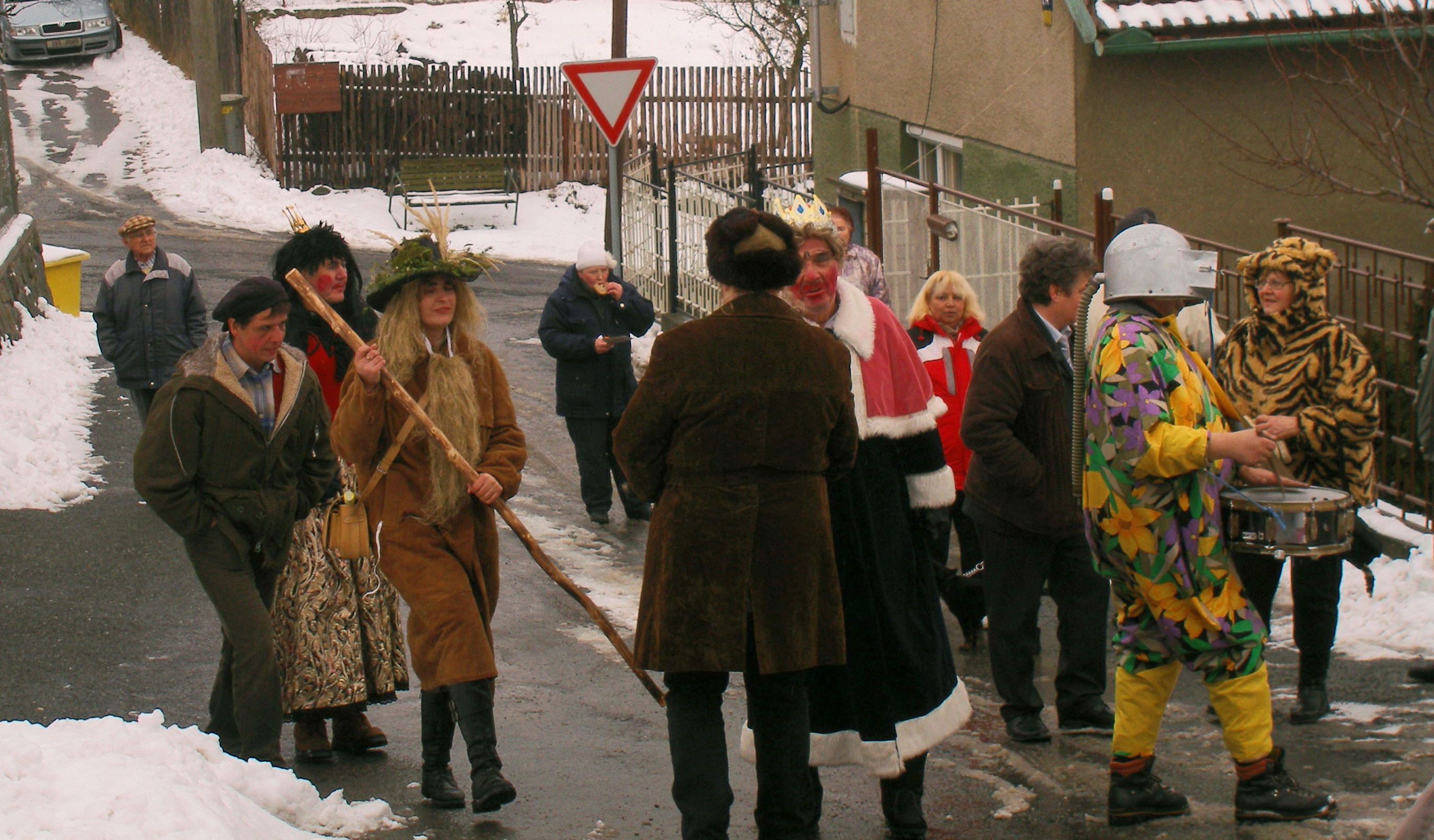 Mardi Gras 2009 at "Na Vyšehradě" Street on border between Nový Knín and Starý Knín